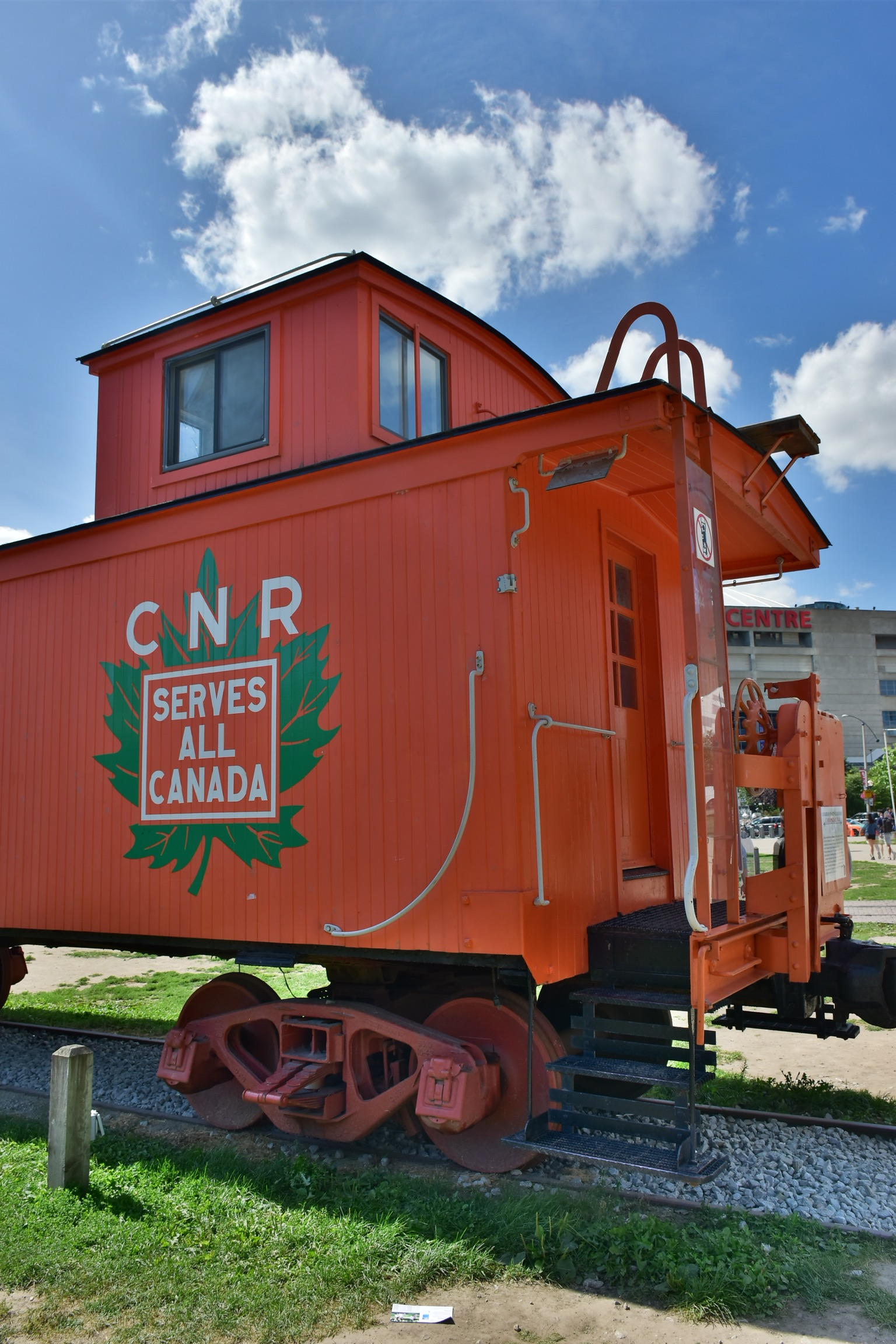 Restored caboose with visible cupola.